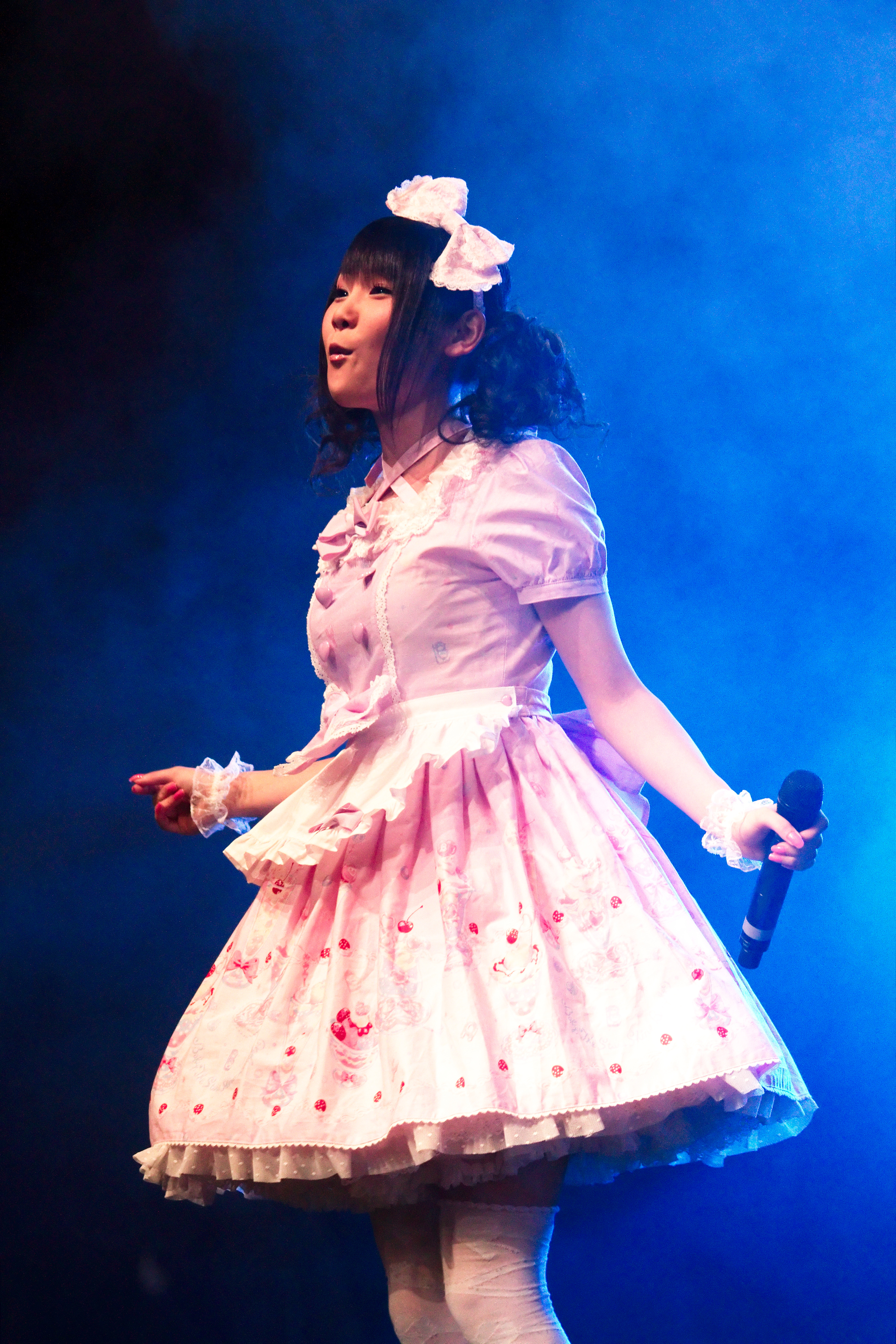 C-Zone live at Japan Expo 2010 (Paris, France).